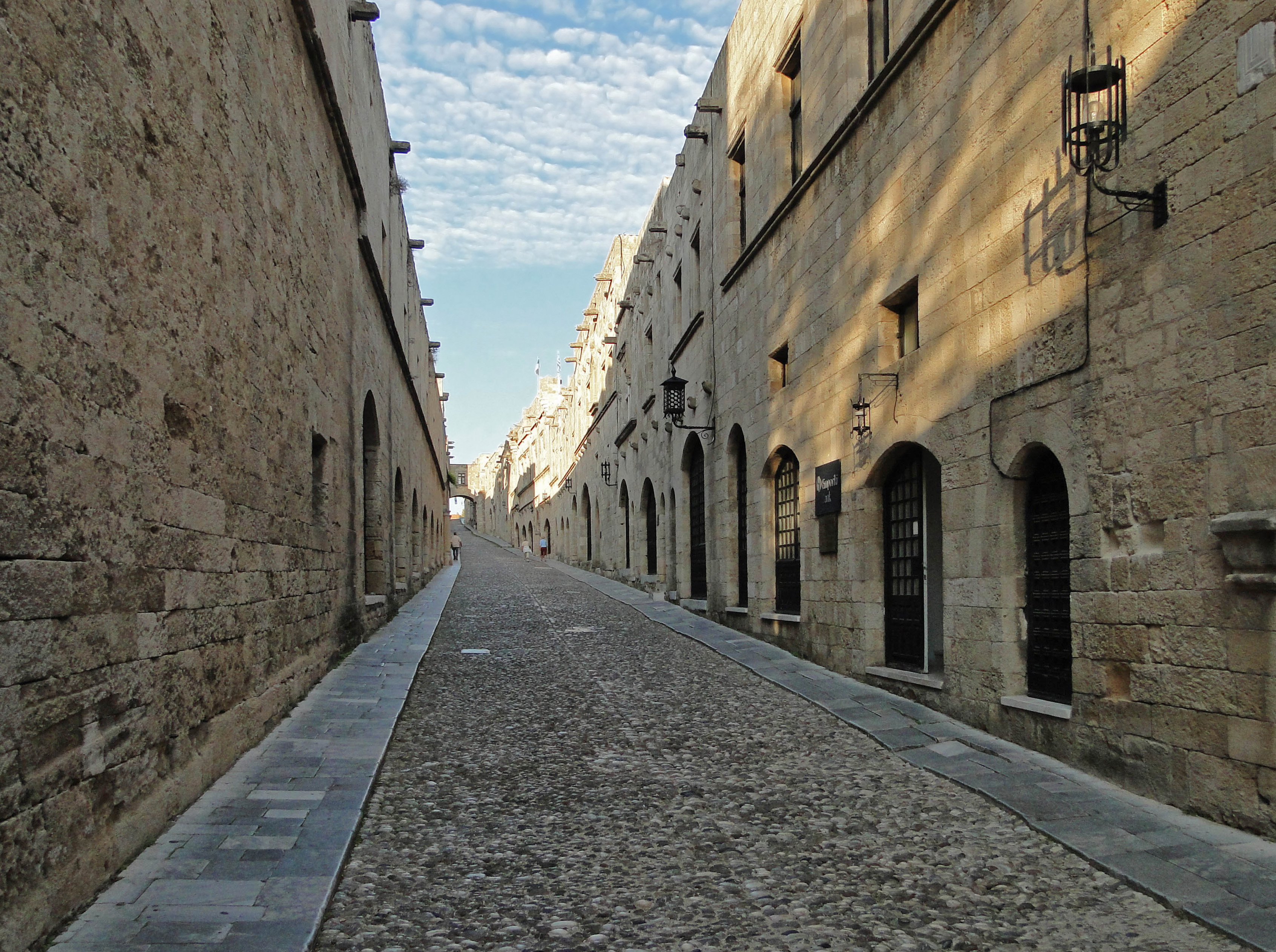 The Street of Knights (Odos Ippoton) in Rhodes, Greece